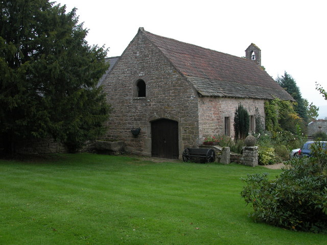 The Argoed A building in the grounds of The Argoed which looks like it may have been a chapel.